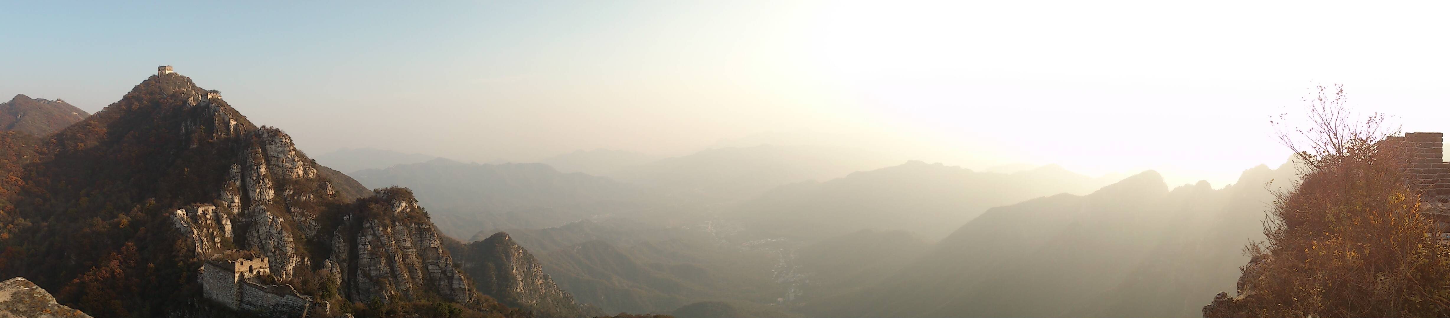 A panoramic view from a watchtower on the Jiankou section of the Great Wall of China